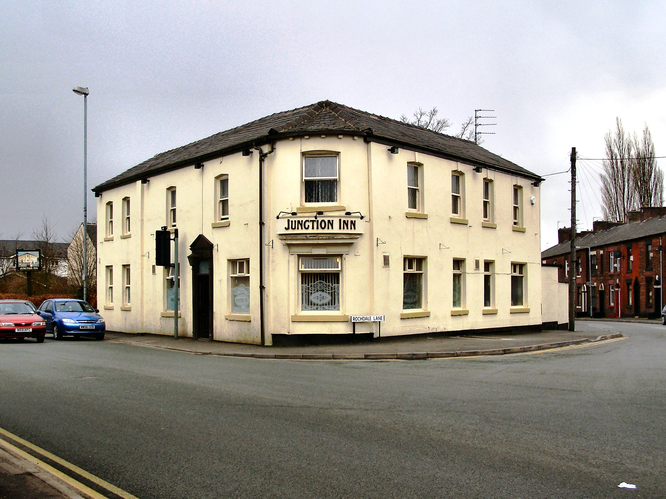 Junction Inn The junction of Rochdale Lane, and Rochdale Road (A671)